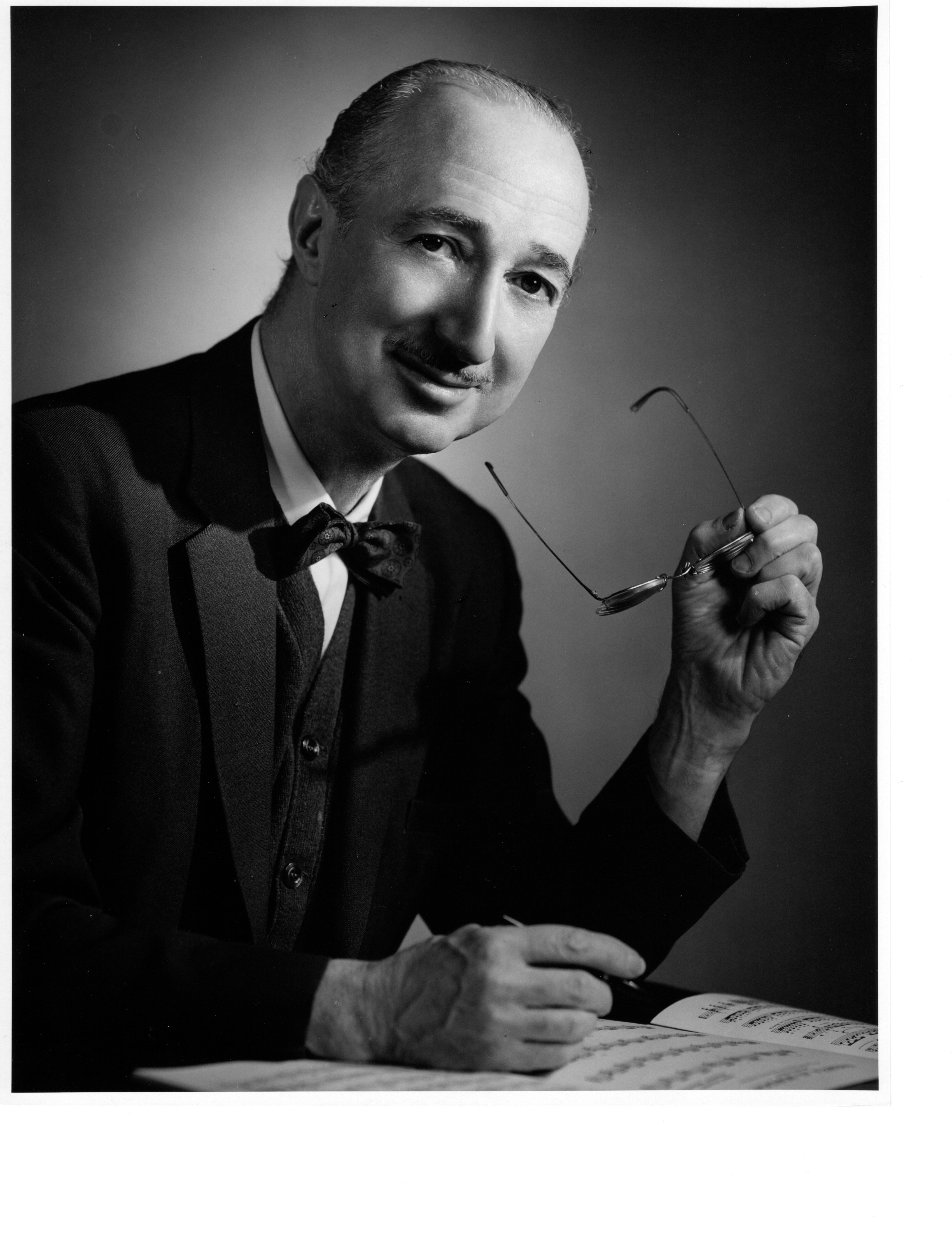 Portrait of Eddie Freeman, guitarist, with a musical manuscript of a transcription of flamenco guitar music, taken by Raiberto Comini of Dallas TX in the late 1970s.